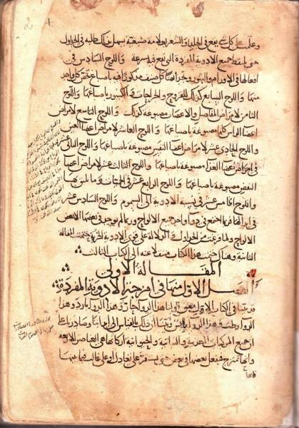 The oldest copies of the second volume of "Canon Of Medicine" (1030) by Abu Ali Ibn Sina, known in the West as Avicenna (980-1037). Institute of Manuscripts of Azerbaijan National Academy of Sciences (IMANAS), Baku